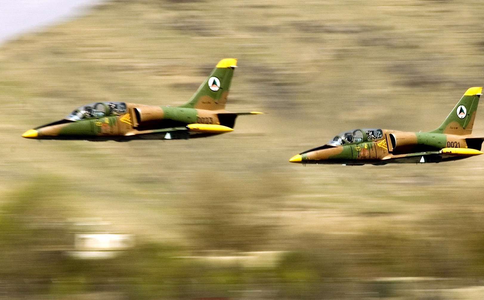 Afghan National Air Corps L-39 Albatross jets take off in a formation practice for the aerial parade in the upcoming Afghan National Day in Kabul, April 12, 2007. Air Force mentors assigned to Defense Reform Directorate Air Division under Combined Security Transition Command - Afghanistan provide guidance to soldiers with the Maintenance Operations Group for the ANAC. U.S. Air Force photo by Tech. Sgt. Cecilio M. Ricardo Jr.